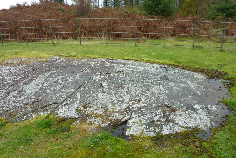 Achnabreck Cup And Ring Marks, Kilmartin Glen, Argyll and Bute, Scotland.